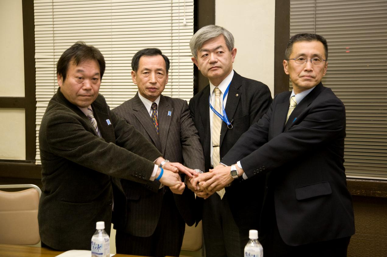 Toshio_Tamogami_with_family_of_Abductees_by_North_Korea